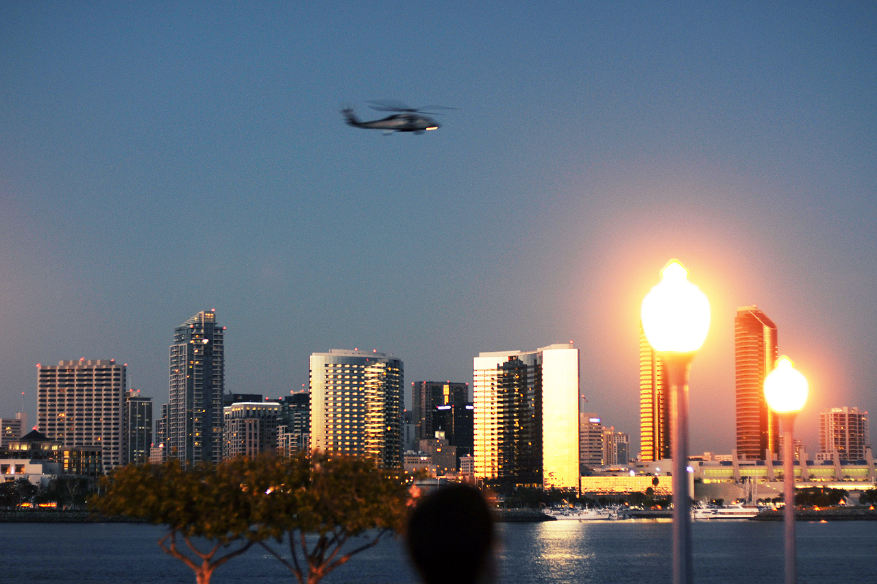 San Diego skyline during the winter of January 2011